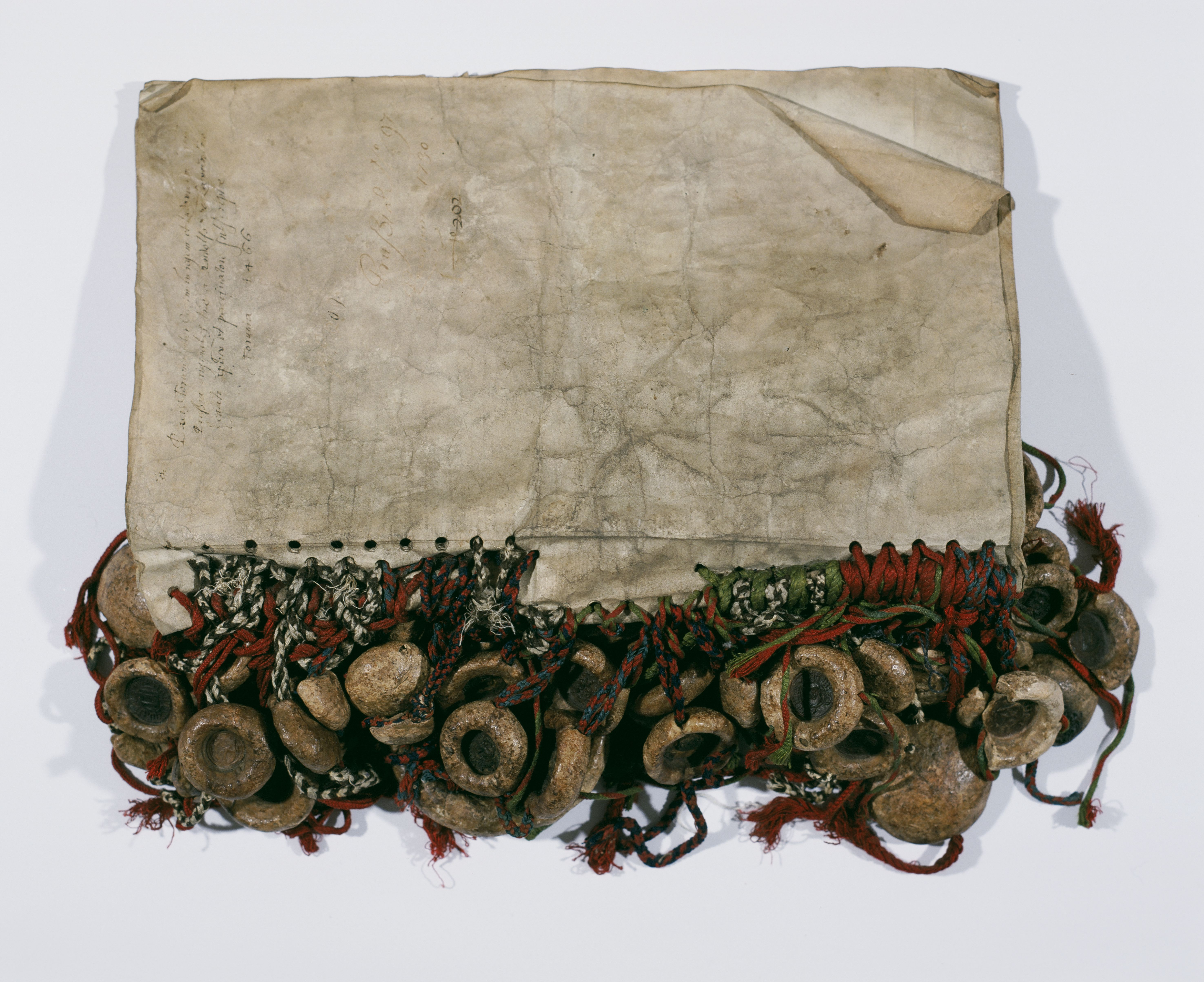 The Second Peace of Thorn of 1466 (German: Zweiter Friede von Thorn